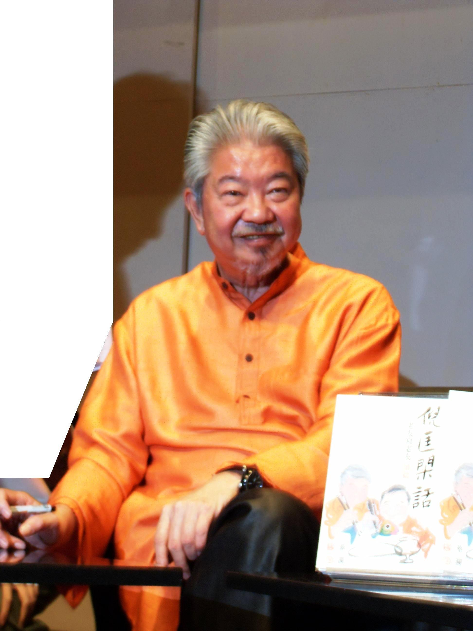 Place: Theatre 2, HKCEC, Wan Chai, Hong Kong, China; Activity: "Chua Lam and Ni Kuang - A Talk Between Good Friends", a lecture held during Hong Kong Book Fair 2008